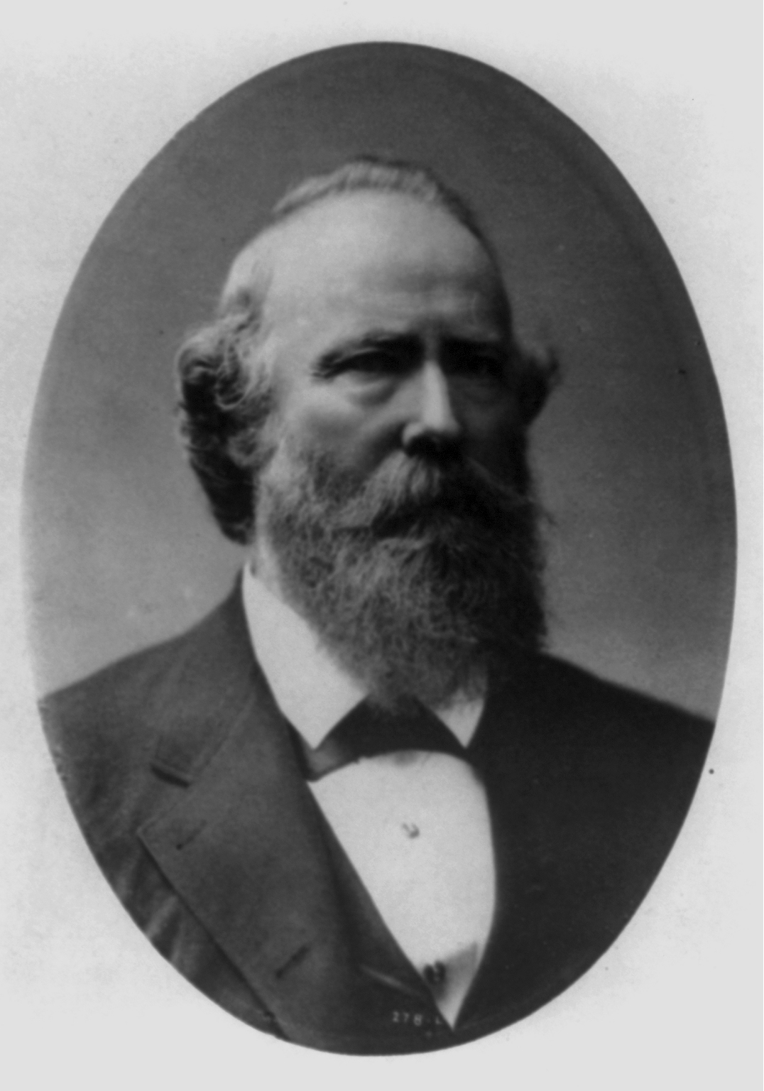 Edwin O. Perrin, American lawyer. Illustration in: The Public Service of the State of New York. Historical, Statistical, Descriptive and Biographical.